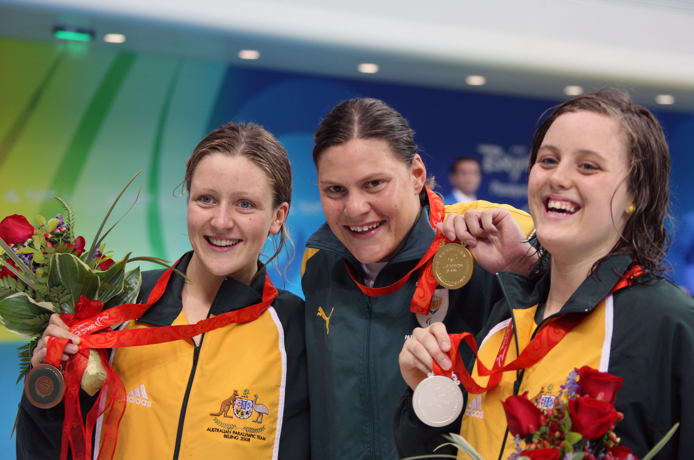 Women's S9 100m butterfly medallists at the Beijing 2008 Paralympic Games. Annabelle Williams (Bronze) - Natalie du Toit (Gold) - Ellie Cole (Silver)